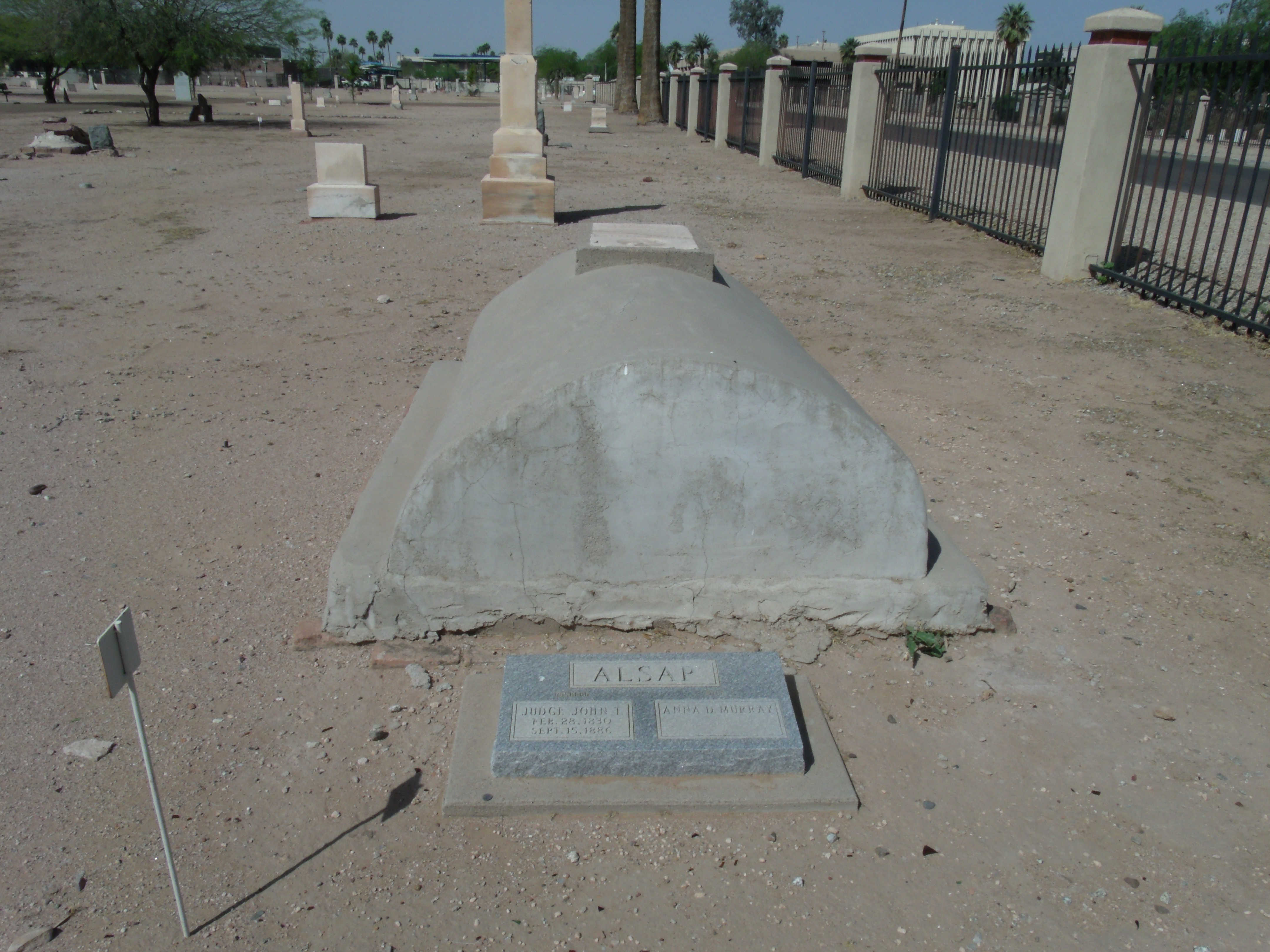 John T. Alsap was the first Treasurer of Arizona Territory. He also served as both Speaker of the House and President of the Council in the Arizona Territorial legislature. In 1818, he became the first Mayor of Phoenix. Alsap died September 10, 1886. The grave is located at 1317 W. Jefferson Street in the "Masons Cemetery" section of Phoenix's historic Pioneer & Military Memorial Park. The Pioneer & Military Memorial Park is listed in the National Register of Historic Places, reference #06001317.